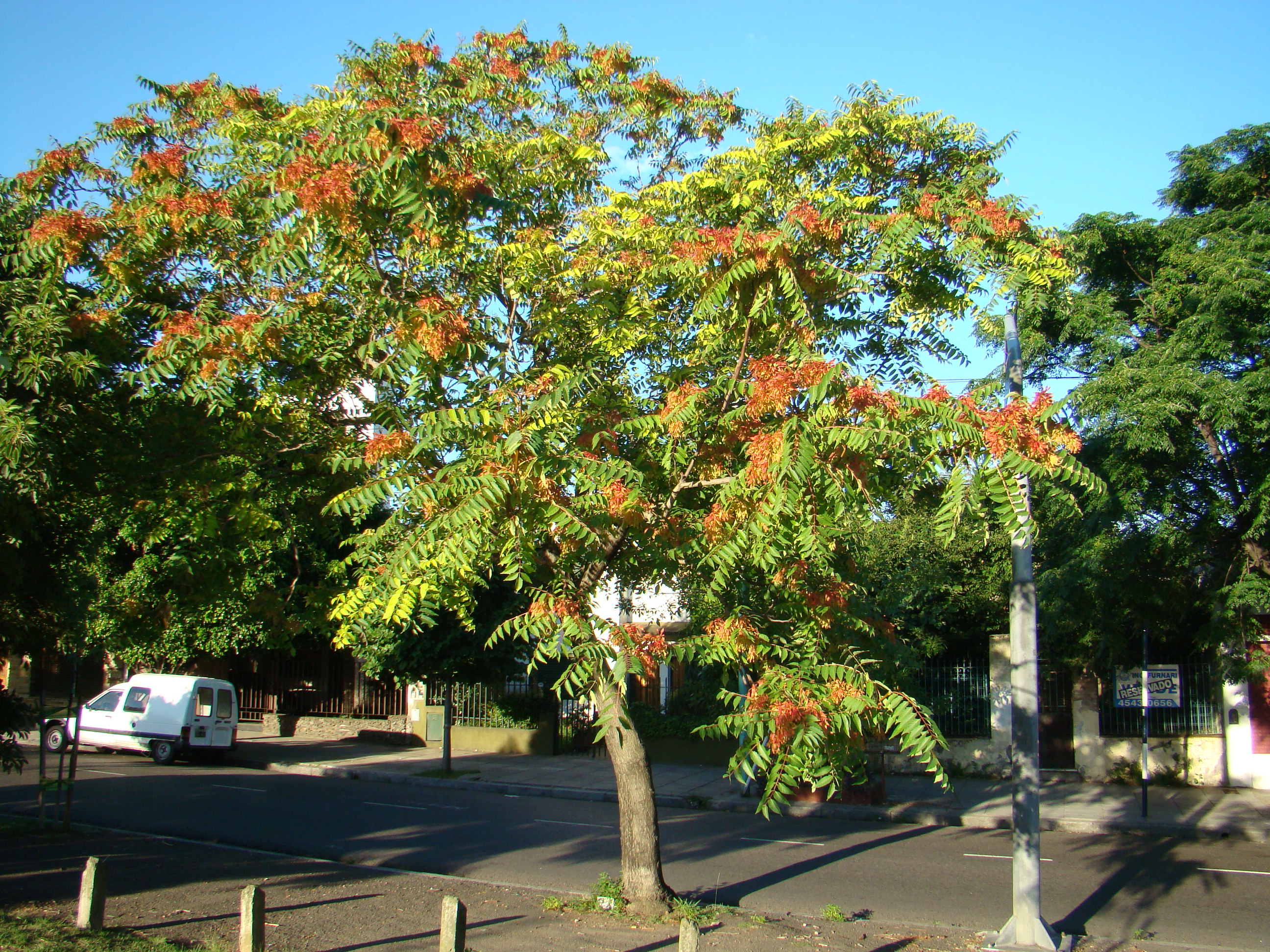 Ailanthus altissima hembra